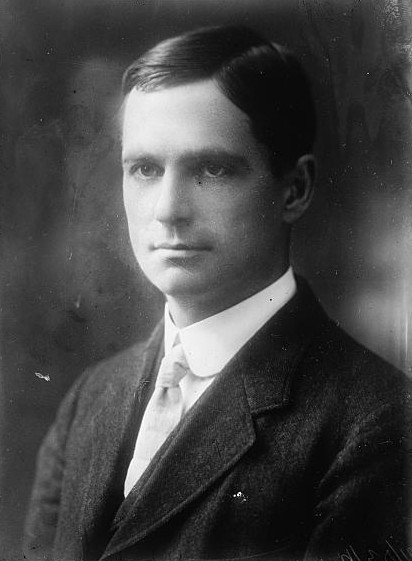 Robert Perkins Bass (1873-1960), American farmer, forestry expert, and Republican politician, Governor of New Hampshire